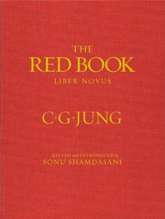 This is the front cover for the book Red Book (Carl Jung).